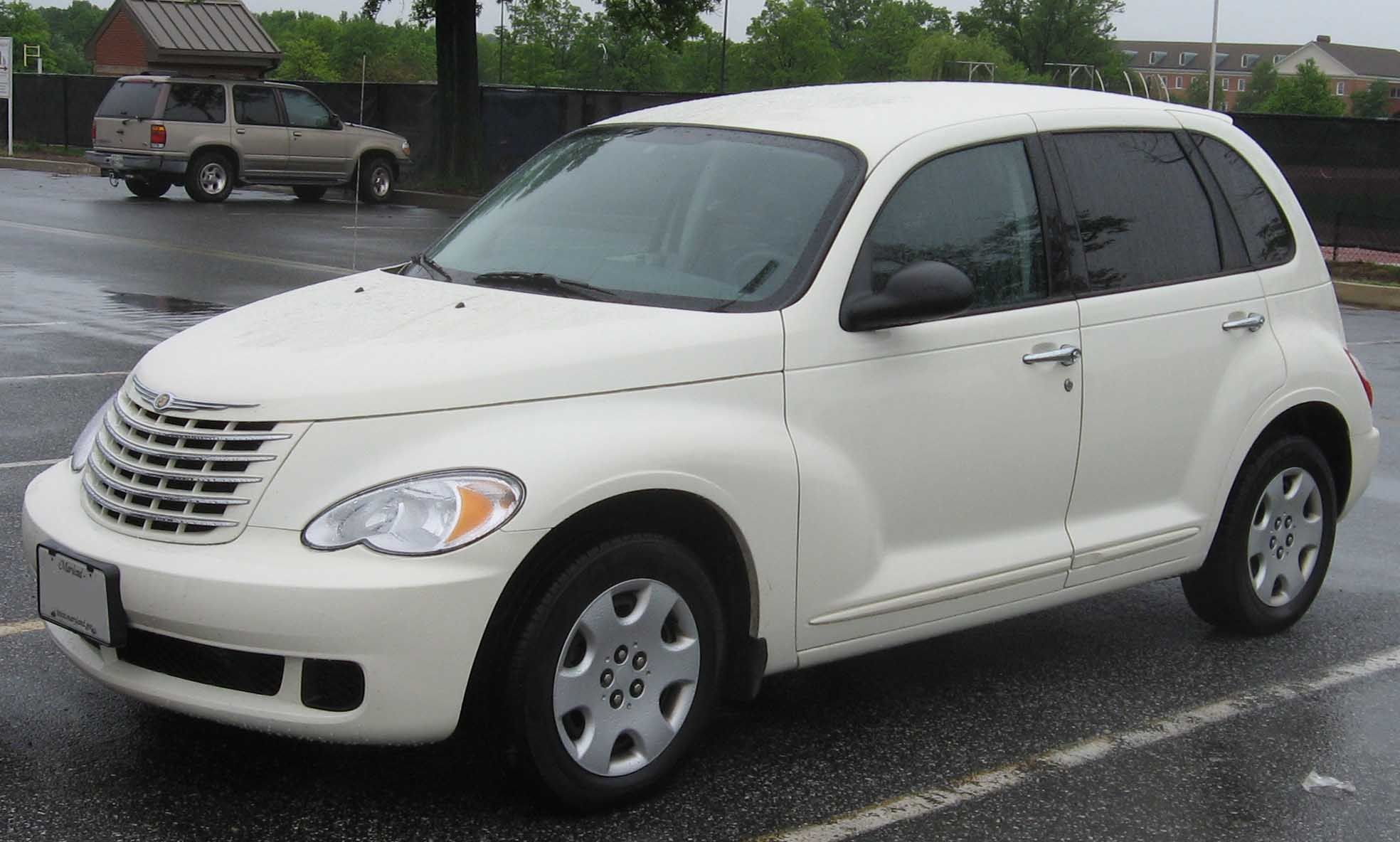 2006-2008 Chrysler PT Cruiser photographed in College Park, Maryland, USA.